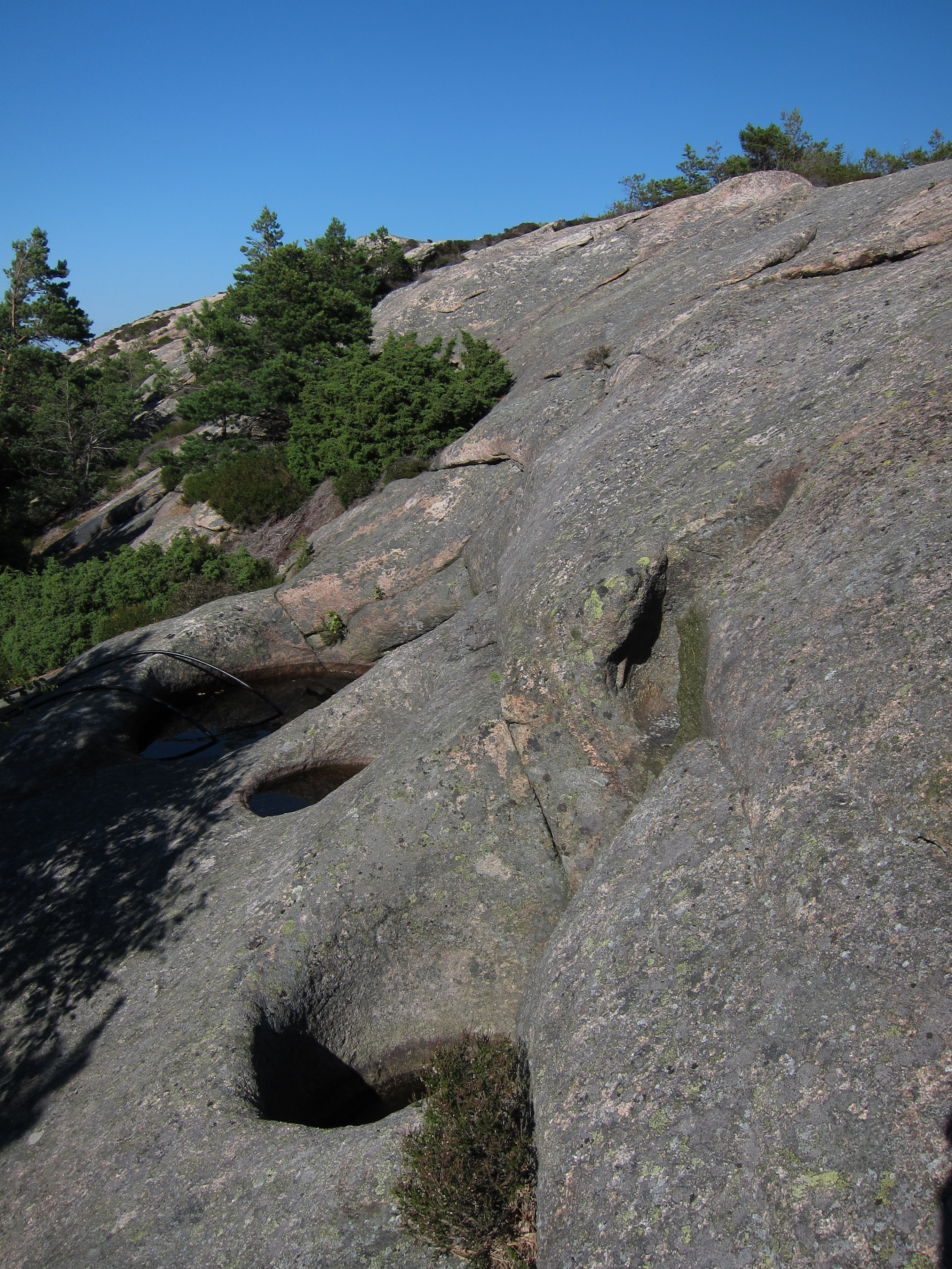 Swedish rock formations